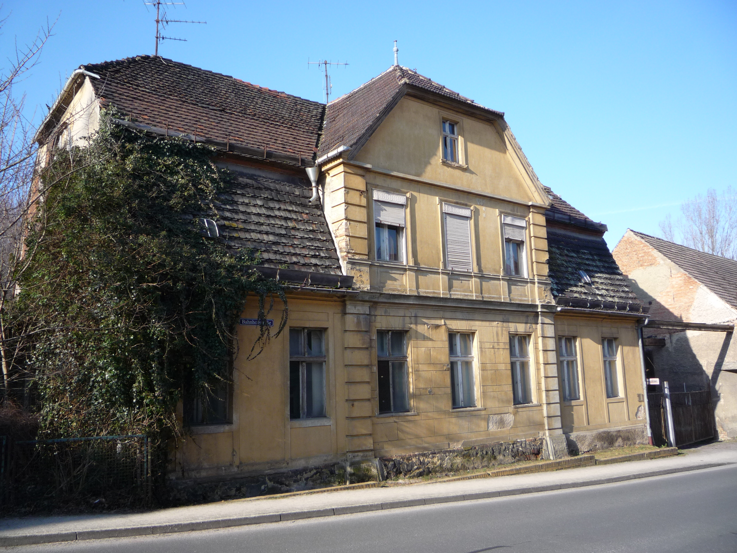 Bahnhofstr. 14 in Bad Belzig, Brandenburg, Germany